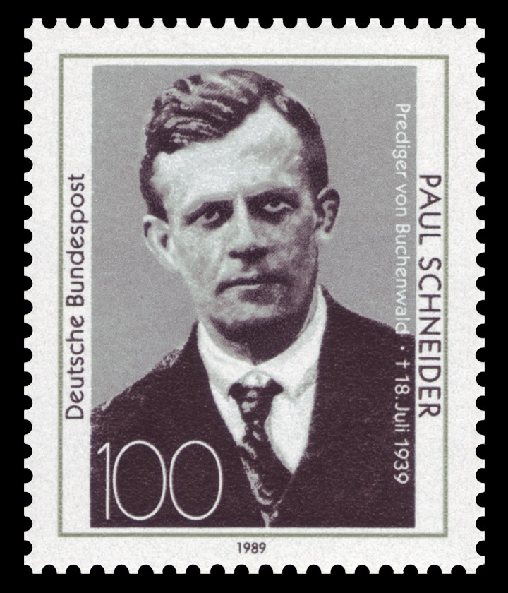 50th day of death of Paul Schneider (1897—1939)